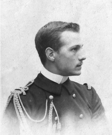 Jean Cras (1879-1932, French composer)